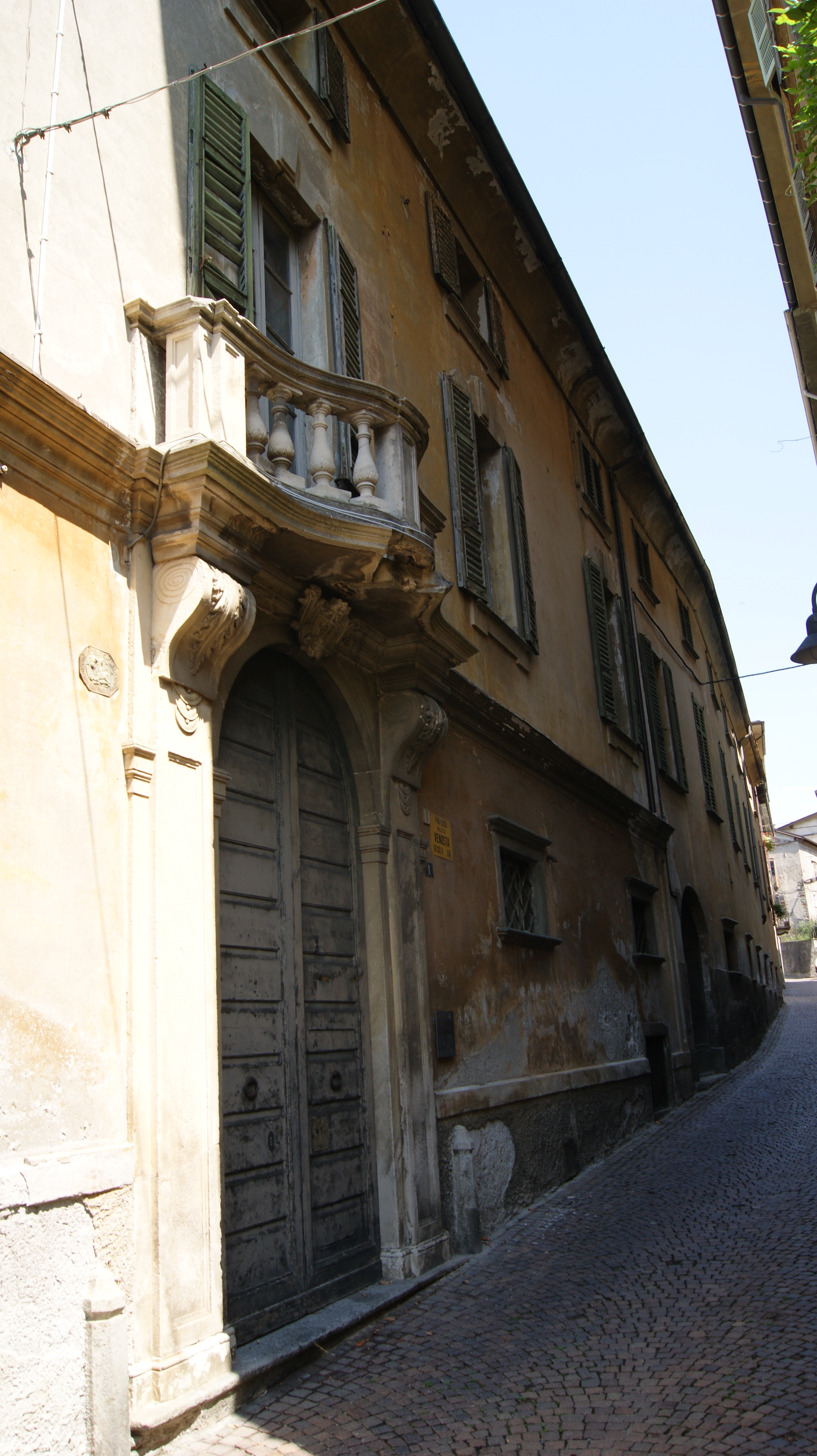 Old town of Tirano (Sondrio), Italy. Palazzo Visconti Venosta.